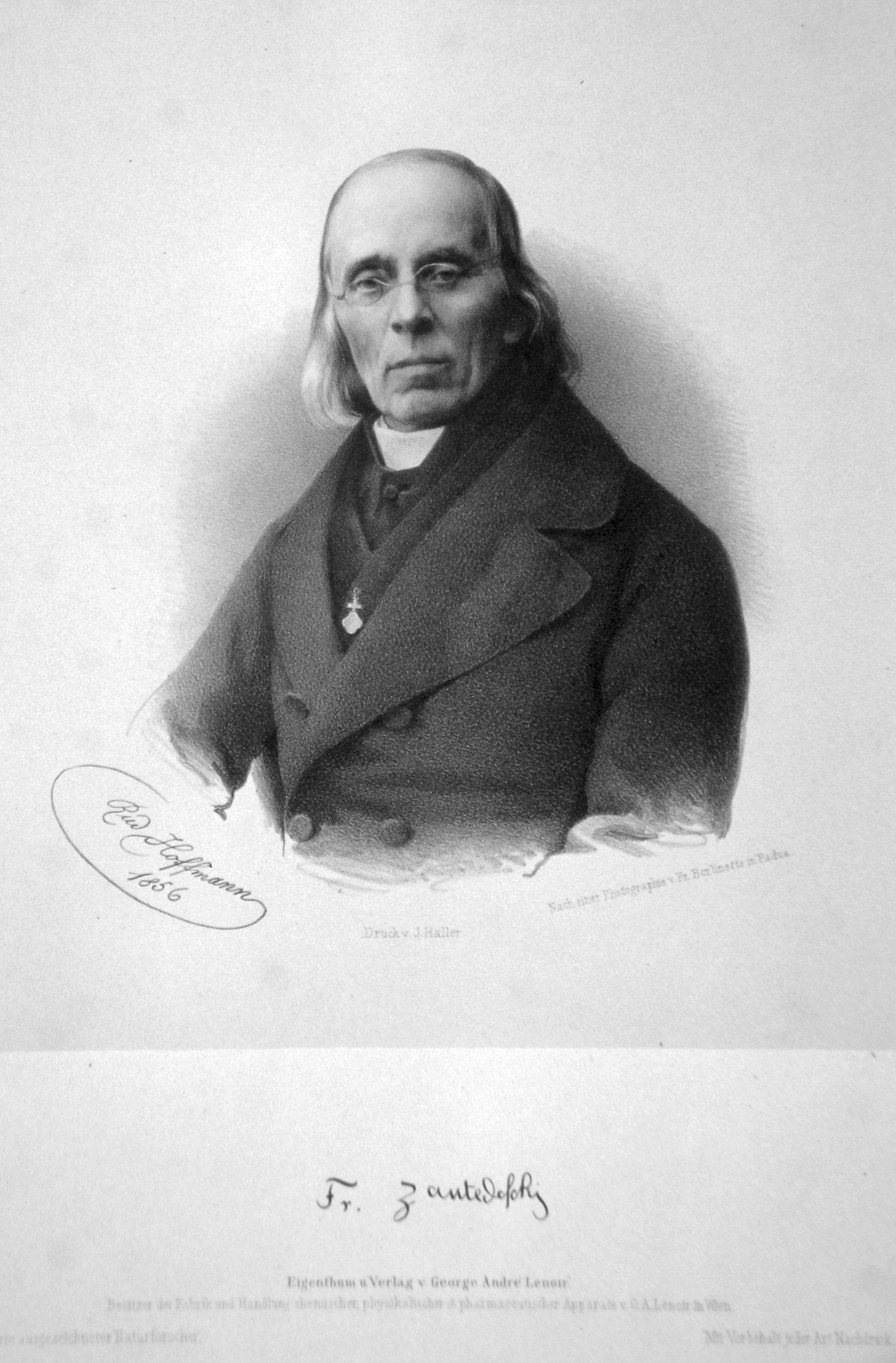 Francesco Zantedeschi (1798-1873), italian Physicist. Lithograph by Rudolf Hoffmann, 1856, after a photograph by Berlinetto (Padua). Frpm "Gallerie ausgezeichneter Naturforsacher" published in Vienna